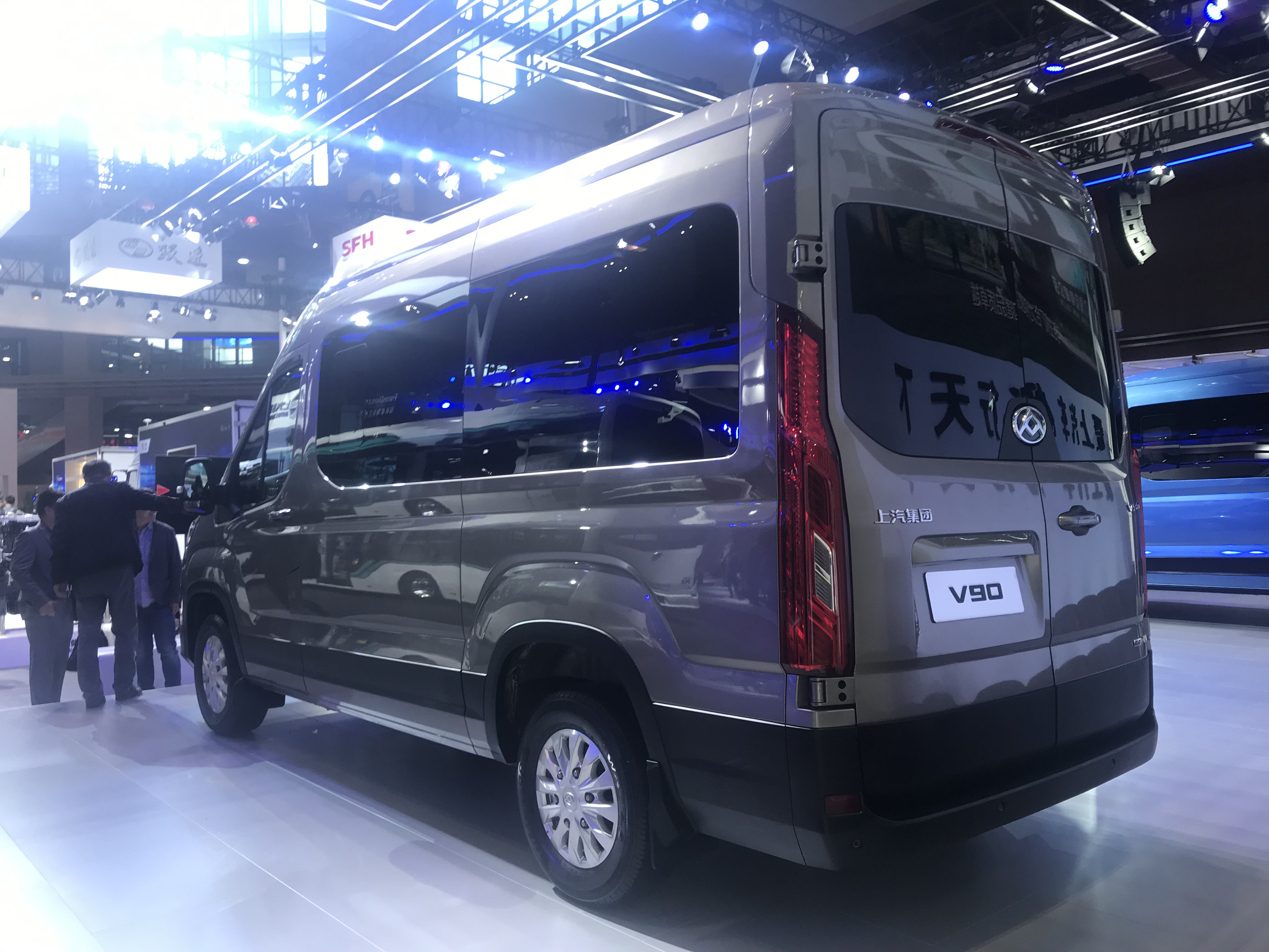 Maxus V90 rear